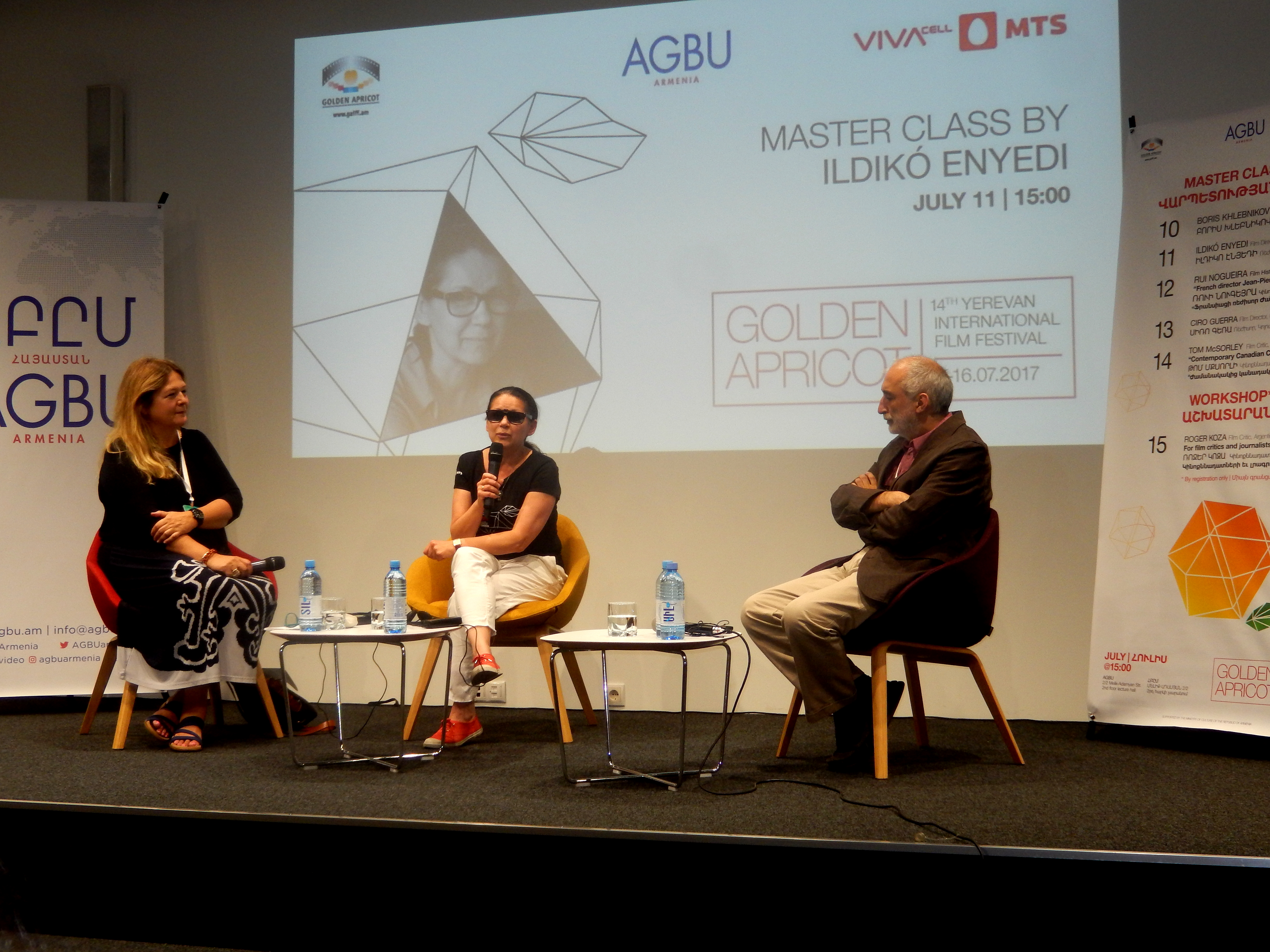 Ildiko Enyedi, Master class in Yerevan as part of the Golden Apricot IFF